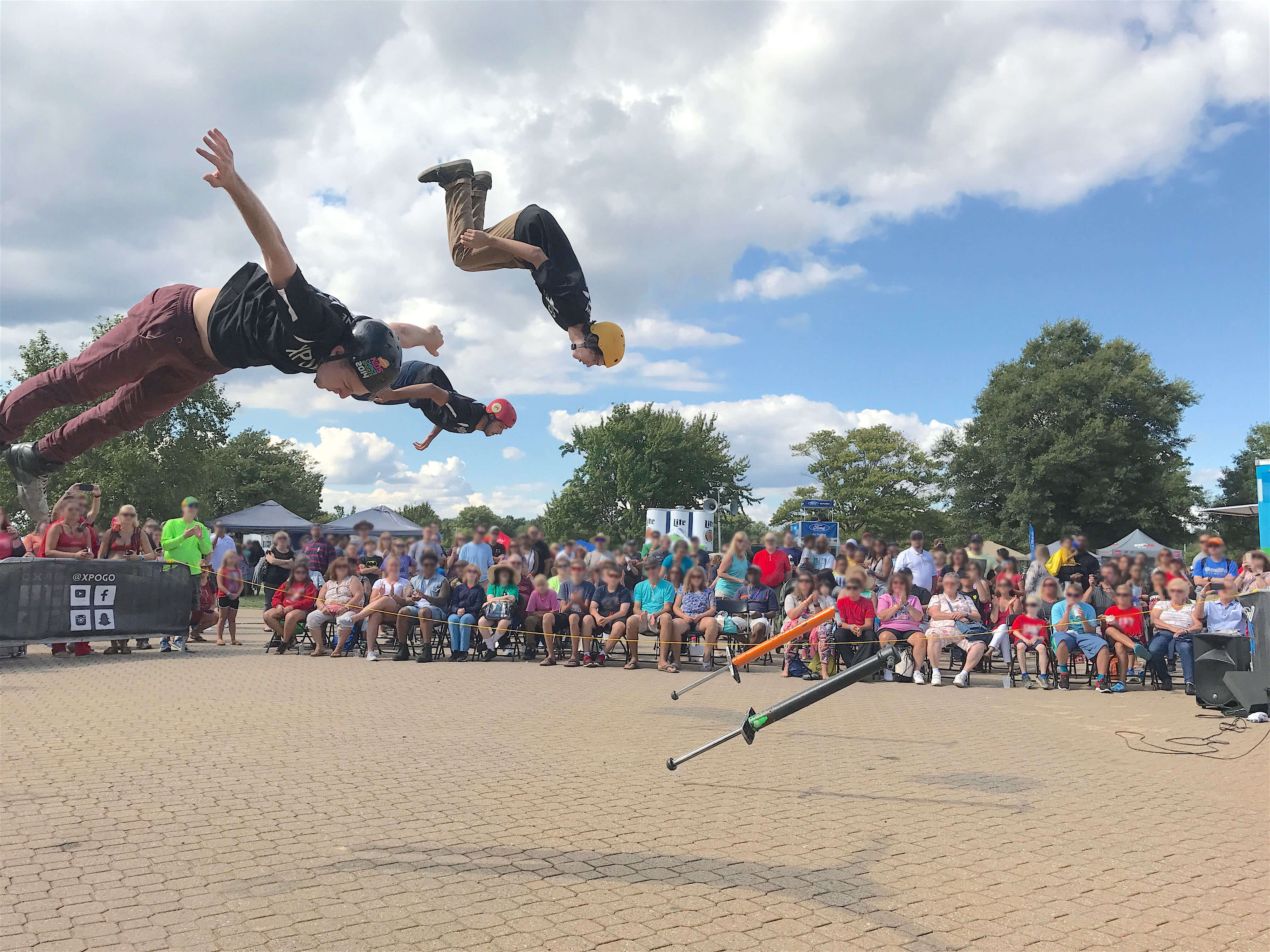 Three Xpogo (Extreme Pogo) practitioners midair during a flip, in Annapolis, Maryland, U.S. Faces in audience have been digitally blurred.